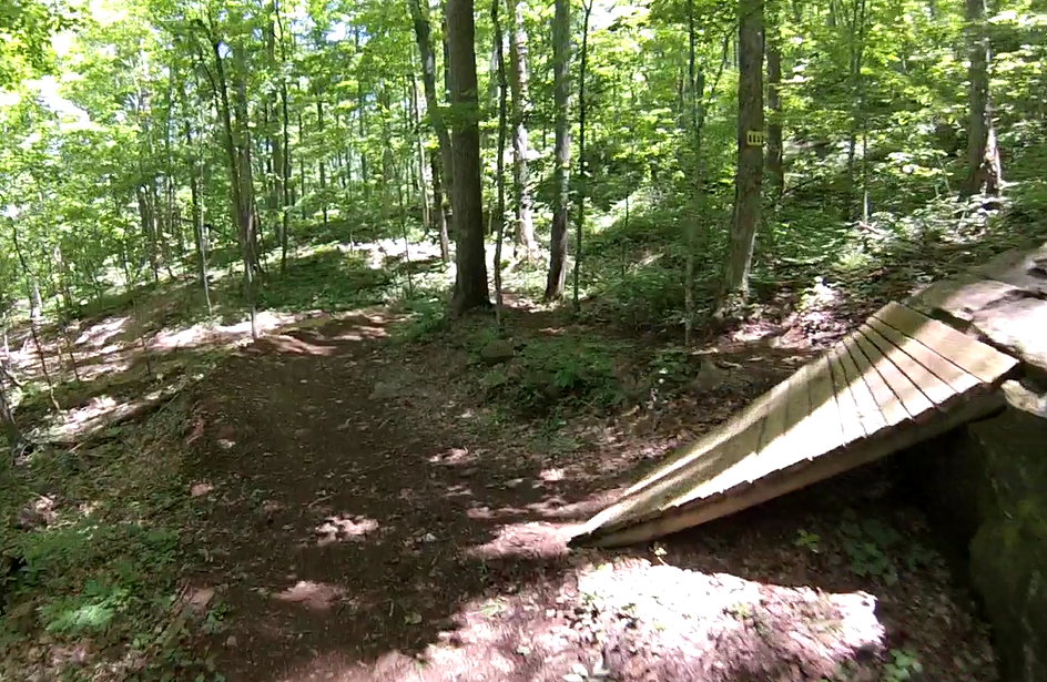 A wood "drop" and banked berm at Rocky Knob mountain biking trail (Boone, NC).